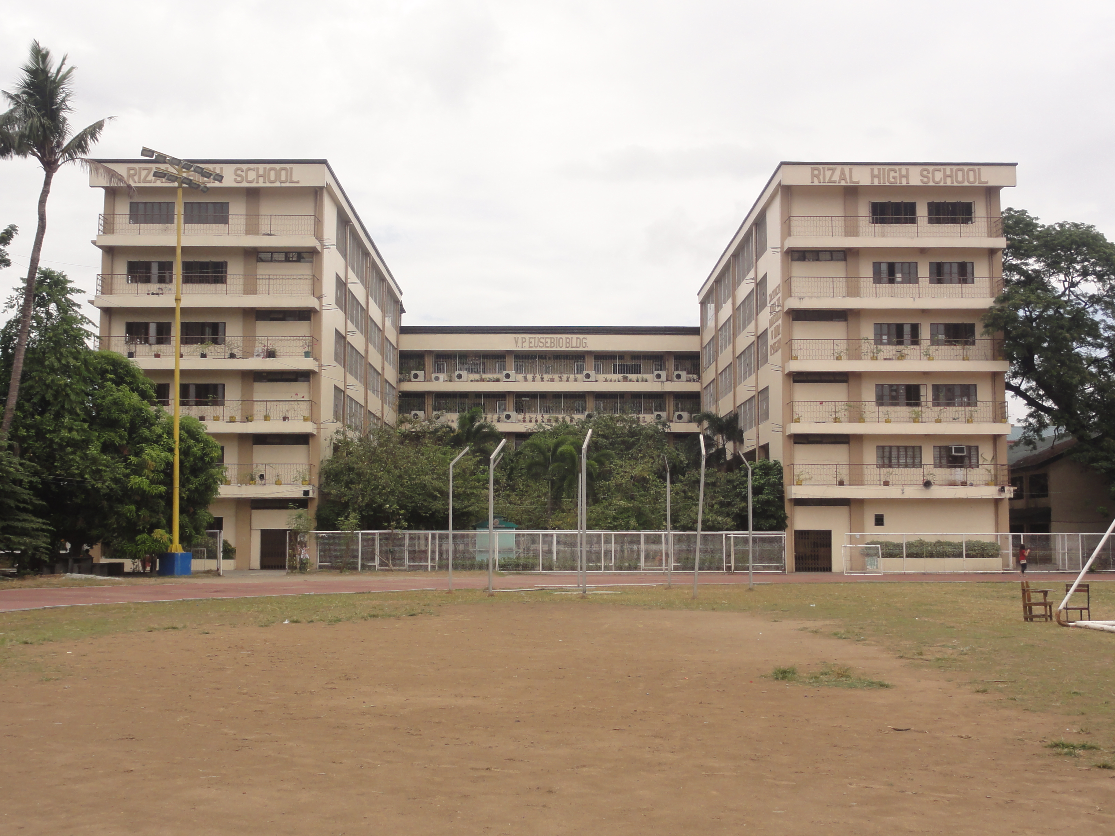 Back view of V.P. Eusebio Building of Rizal High School (RHS) in Caniogan, Pasig City, Metro Manila as of March 2015. It is the school's main academic and administration building.